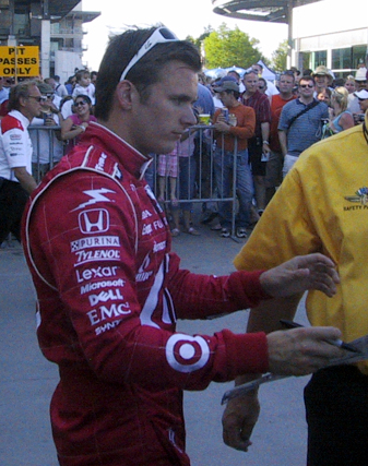 Dan Wheldon signs autographs for fans following Pole Day qualifications at the Indianapolis Motor Speedway.